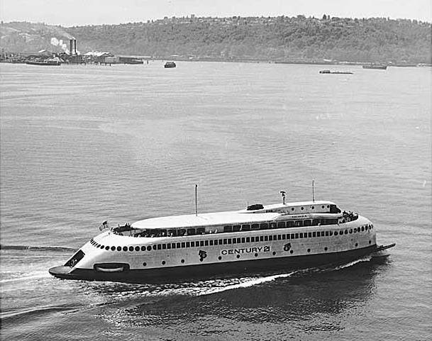 MV Kalakala, a diesel powered ferry, at sea, at the time of the Century 21 Exposition (1962 Seattle World's Fair).